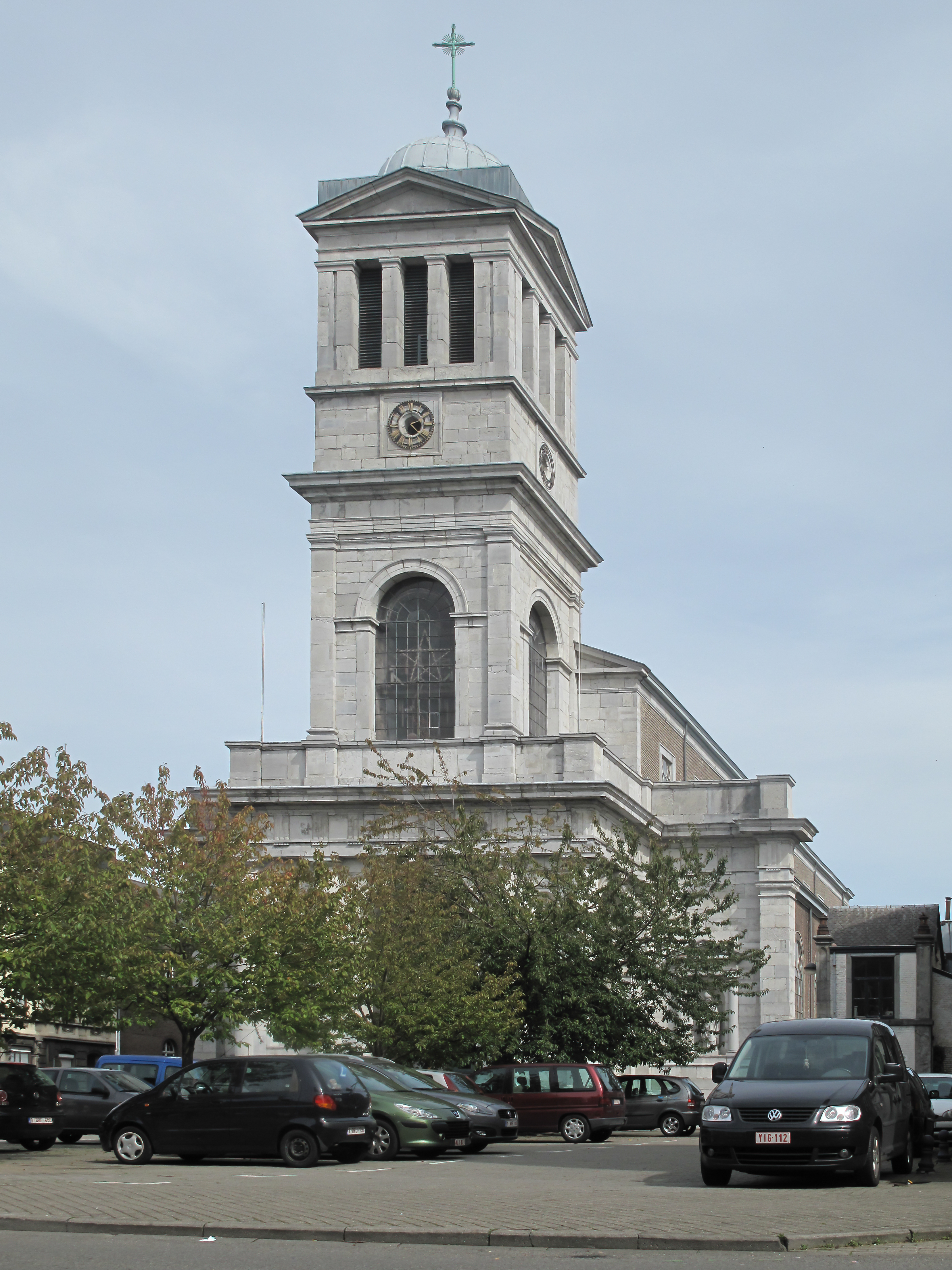 Verviers, church